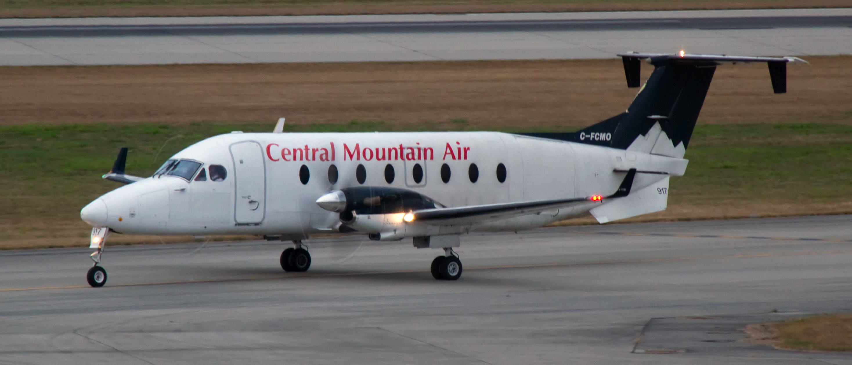 Central Mountain Air - CMA Raytheon 1900D C-FCMO